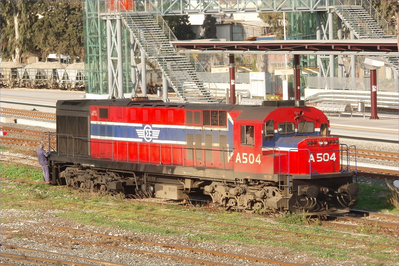 Hellenic Railways Organization, Agios Ioannis Rentis: MLW MX-636 locomotive.